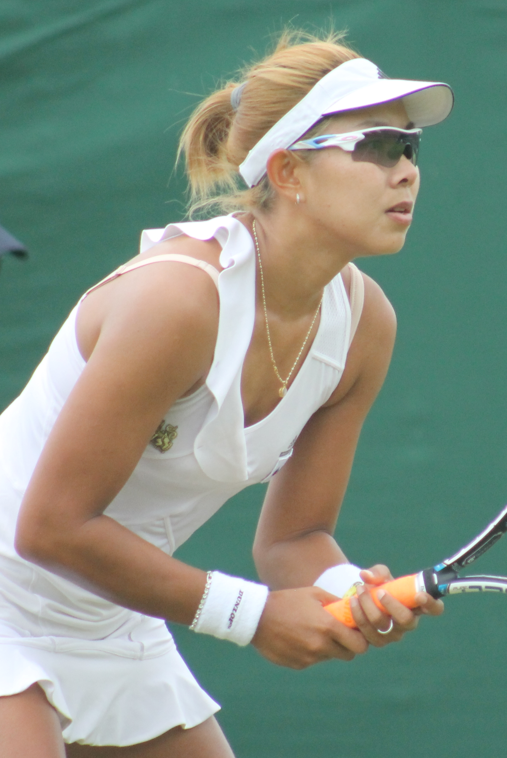 Varatchaya Wongteanchai at the 2015 Wimbledon Qualifying Tournament (2)